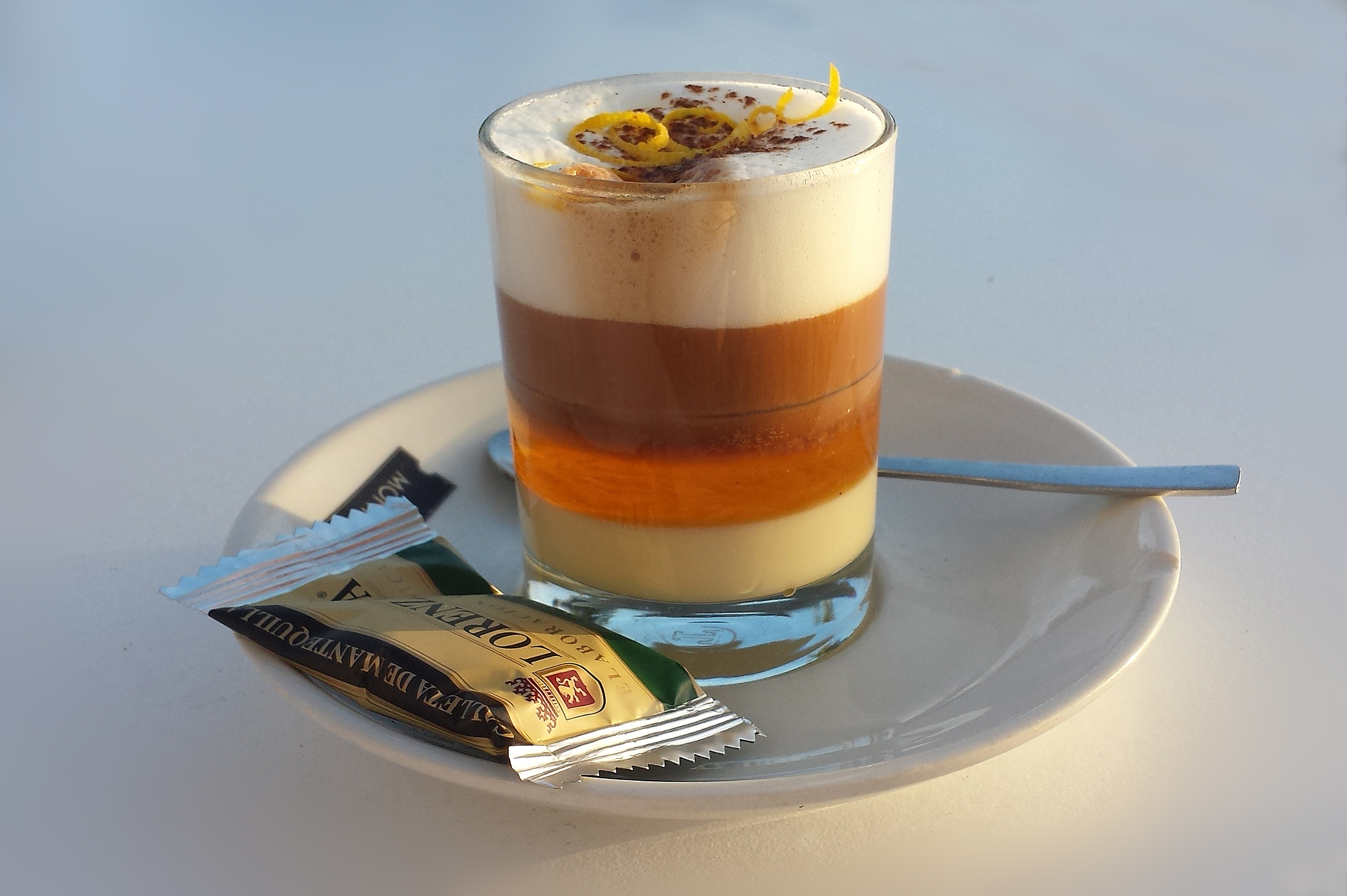 Barraquito